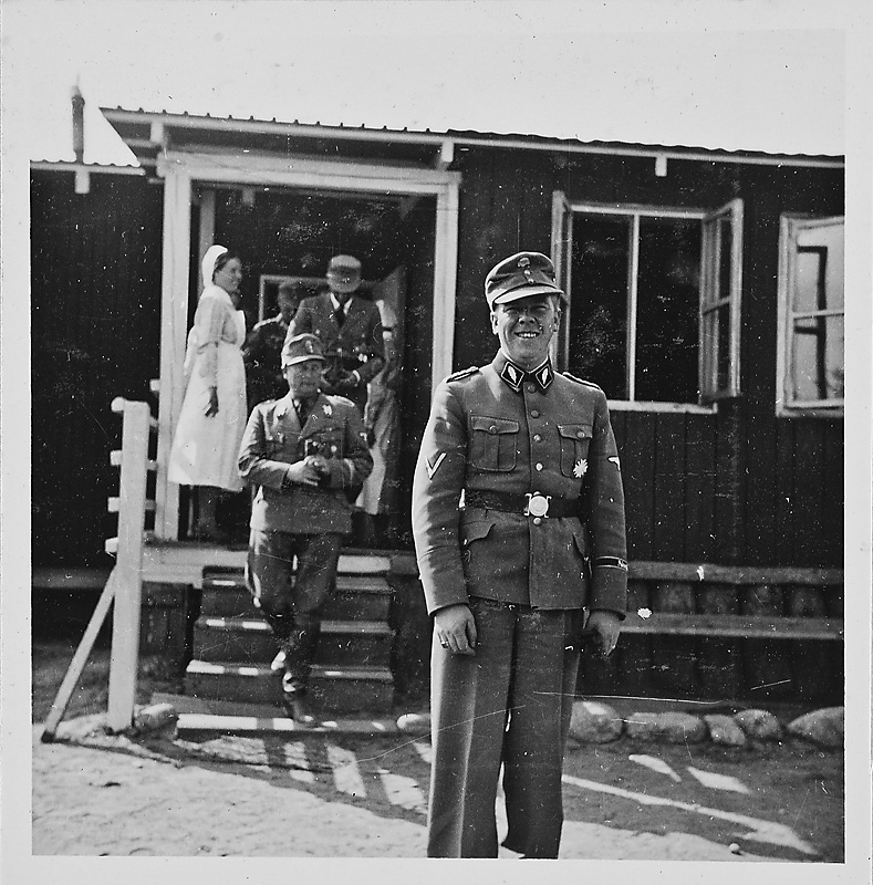 Image from "Photo Album from Terboven's journey to Nothern Norway and Finland 10–27 July 1942" (Mit dem Reichskommissar nach Nordnorwegen und Finnland 10. bis 27. Juli 1942), 375 images uploaded to www. by Riksarkivet (National Archives of Norway) 2012. See scanned album here